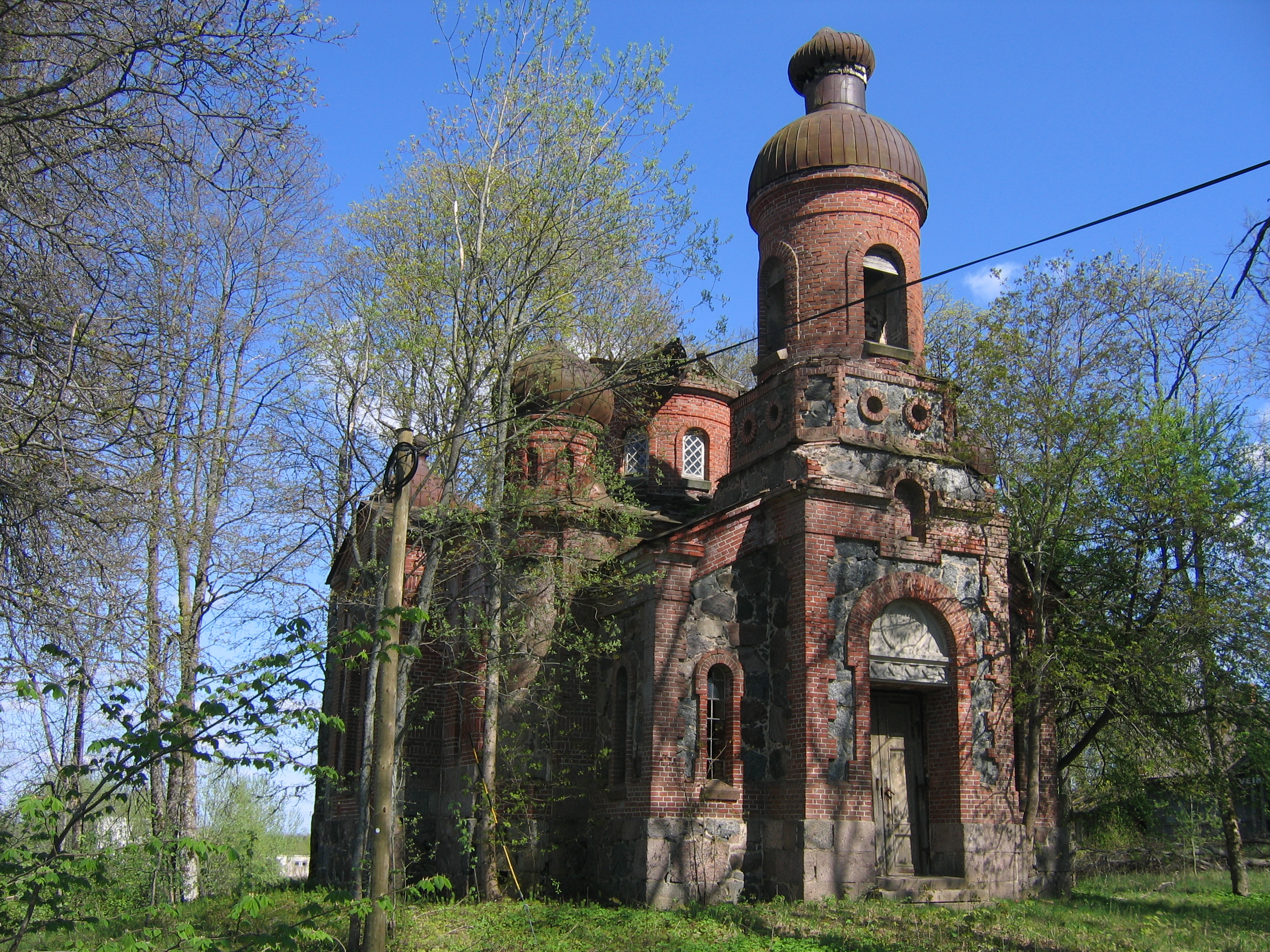 Māļi Orthodox Church